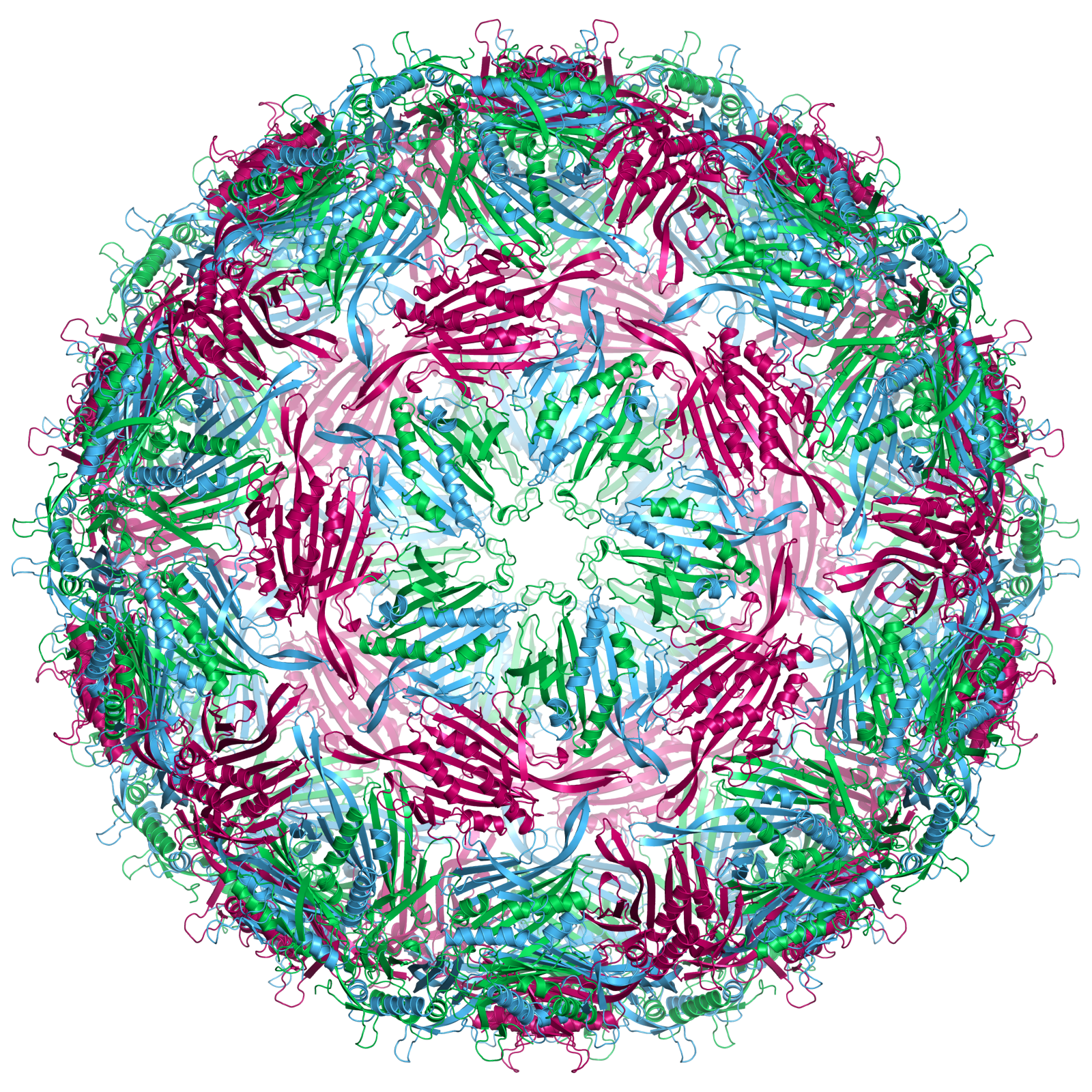 Cartoon representation of the entire bacteriophage MS2 protein capsid (pdb id 1AQ3).The three quasi-equivalent conformers in the structure are labelled blue (chain a), green (chain b) and magenta (chain c). The view is approximately down an icosahedral 5-fold symmetry axis.